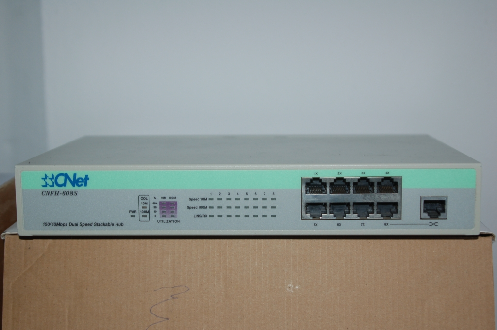 hub cnet cnfh dual speed 10mbps 100mbps 10/100mbps stackable hub network network hardware